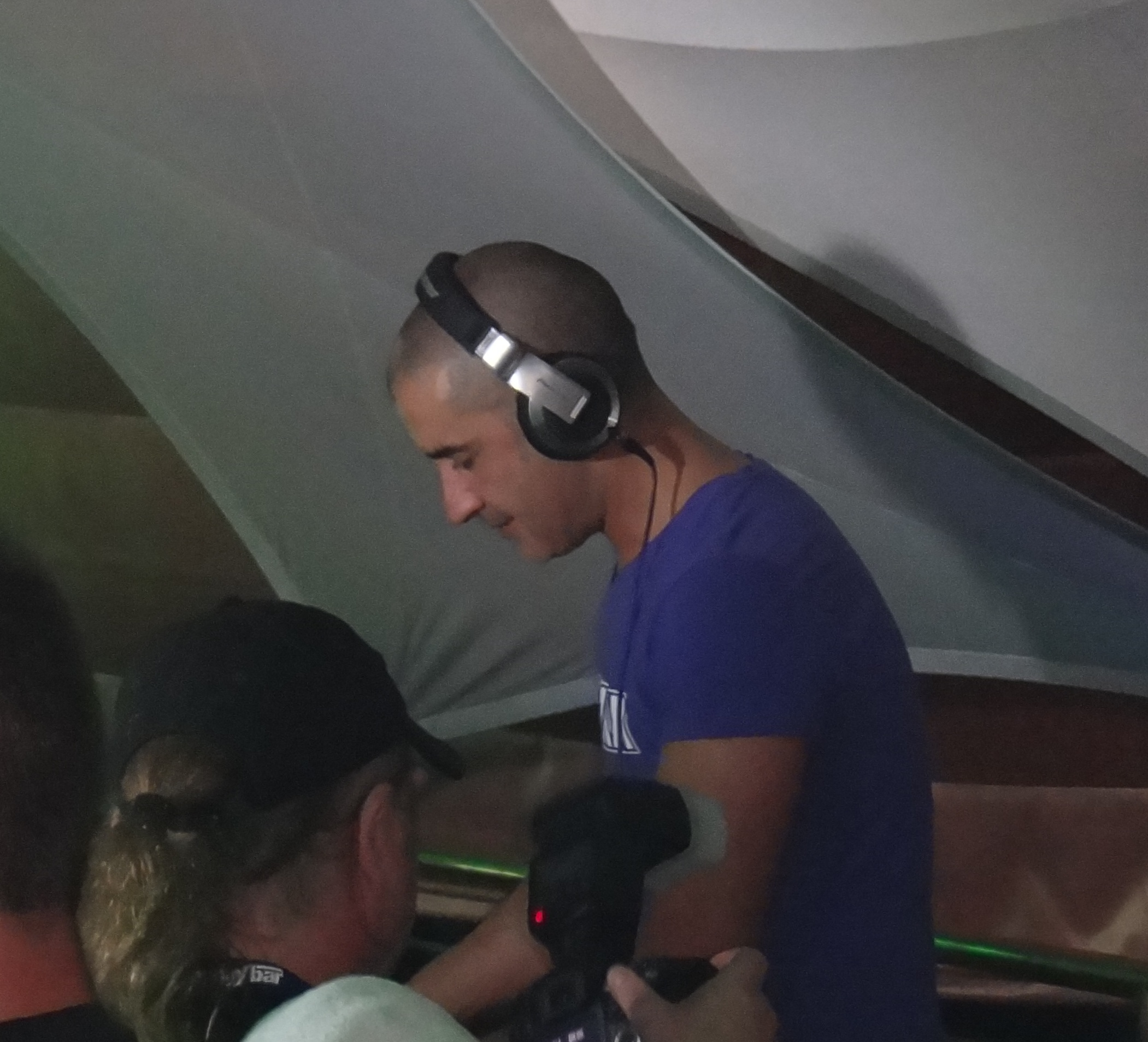 DJ The Prophet playing at Monday Bar Summer Cruise 2011.